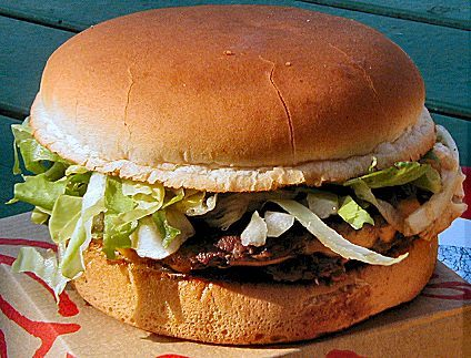 A hamburger (sandwich).